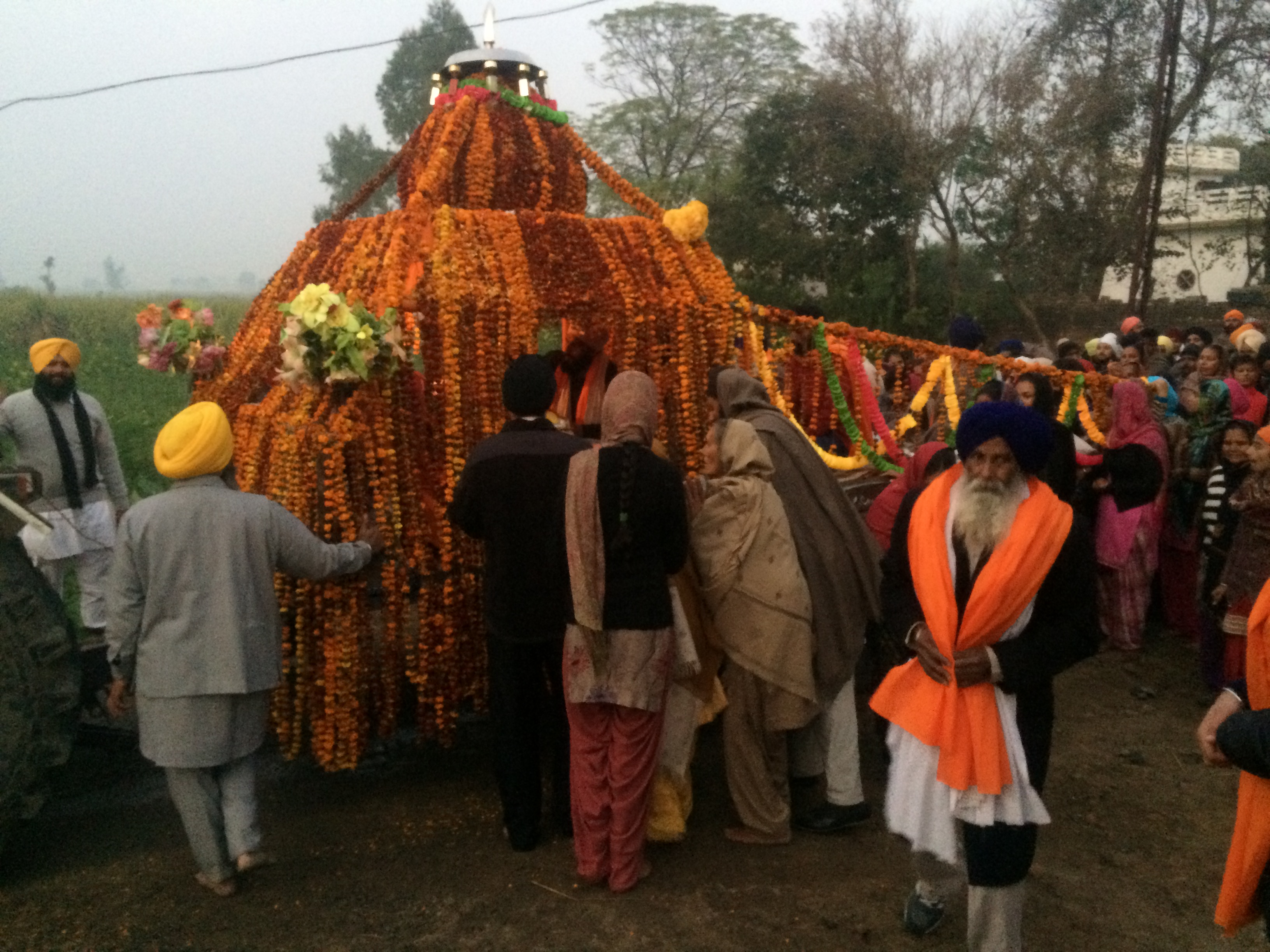 ਸਰਦਾਰ ਤਜਿੰਦਰ ਸਿੰਘ ਸ਼ਾਹ